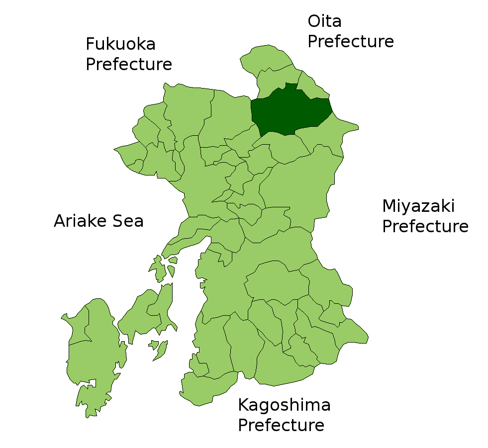 The location of Aso in Kumamoto Prefectuur, Japan